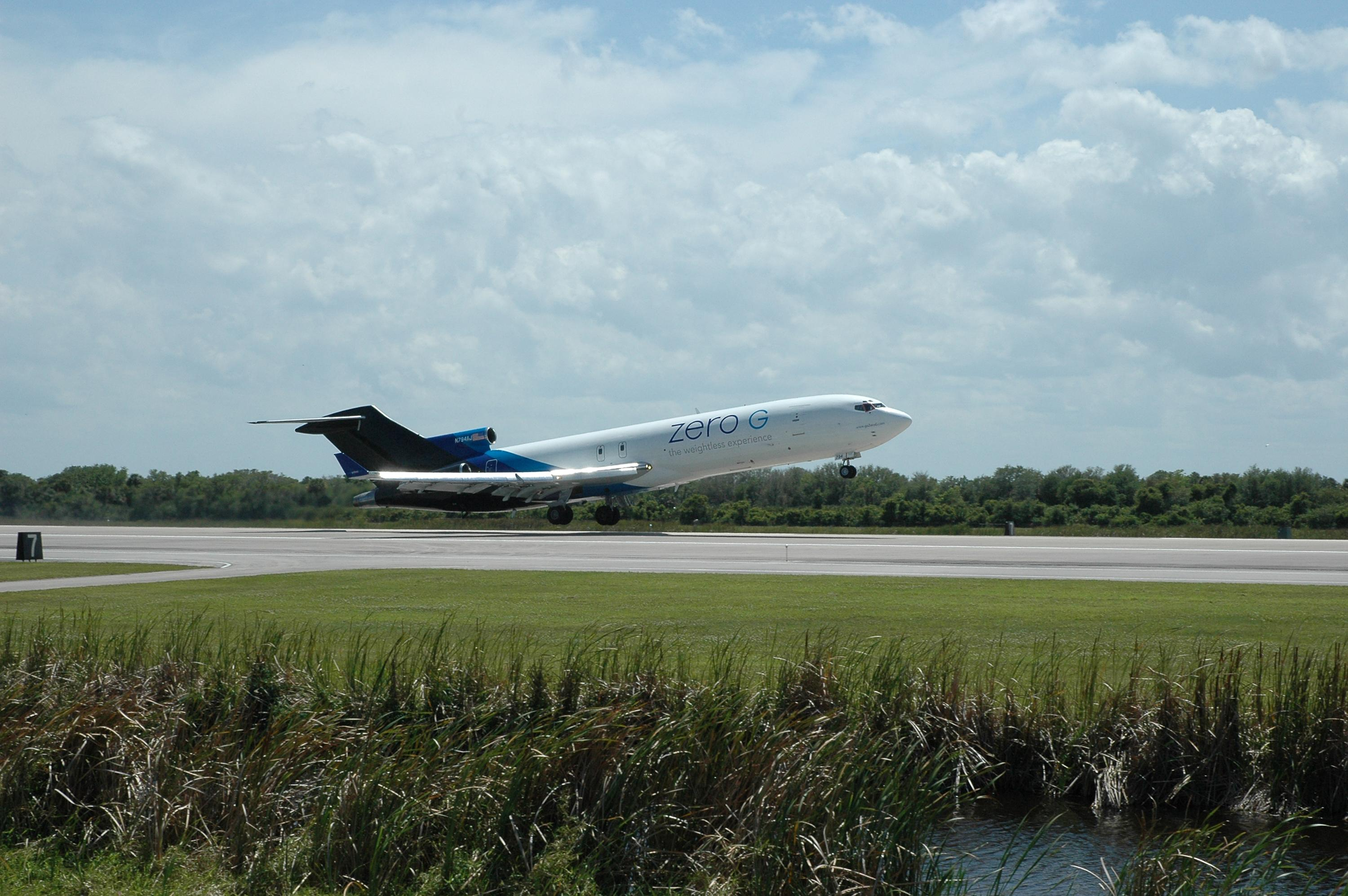 At the Kennedy Space Center Shuttle Landing Facility, a modified Boeing 727 aircraft owned by Zero Gravity Corp. takes off with its well-known passenger, physicist Stephen Hawking. Zero Gravity Corp. is a commercial company licensed to provide the public with weightless flight experiences. Hawking will be making his first zero-gravity flight. Hawking developed amyotrophic lateral sclerosis disease in the 1960s, a type of motor neuron disease which would cost him the loss of almost all neuromuscular control. At the celebration of his 65th birthday on January 8 this year, Hawking announced his plans for a zero-gravity flight to prepare for a sub-orbital space flight in 2009 on Virgin Galactic's space service.